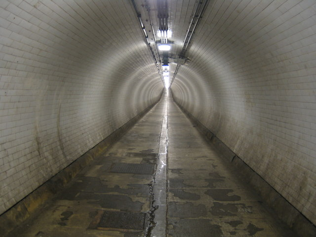 Woolwich Foot Tunnel This view was taken from the northern end looking down to the lowest point. There are 126 steps in the northern shaft - I know, I counted them. The tunnel was opened on 26 October 1912, and was built to provide a more reliable connection between North and South Woolwich at a time when winter fogs caused disruption to the existing ferry service. A contemporary newspaper article reported the event as follows: "The tunnel was designed by and the work executed by Sir Maurice Fitzmaurice for London County Council. It consists of a cast-iron tube of 12 feet 8 inches outside diameter connecting two vertical shafts of 25 feet inside diameter and about 60 feet deep. The length between the shafts is 1,635 feet. The thickness of the river bed between the top of the tunnel and the river is about 10 feet at the deepest place. The shafts consist of steel caissons formed of two skins of steel plating, the annular space between them being filled with concrete. Both shafts were sunk by excavating inside them under compressed air. They are lined with brickwork, and in each there is a spiral staircase giving access to the tunnel from the street above. In the well of each staircase there is an electric lift capable of carrying 40 passengers. The tunnel was constructed by the "shield" method under compressed air. After it was completed from shaft to shaft it was lined throughout with concrete, upon which white glazed tiles are fixed. The footway is paved with York stone flags. The construction of the north shaft was begun on 1 May 1910 and it was sunk to its final level in September 1910. Actual tunnelling work commenced on 1 December 1910 and finished in October 1911. The tender of the contractors, Messrs. Walter Scott and Middleton amounted to £78,860 7s 1d. The original scheme did not allow for provision of the lifts which were added afterwards for £5,000."